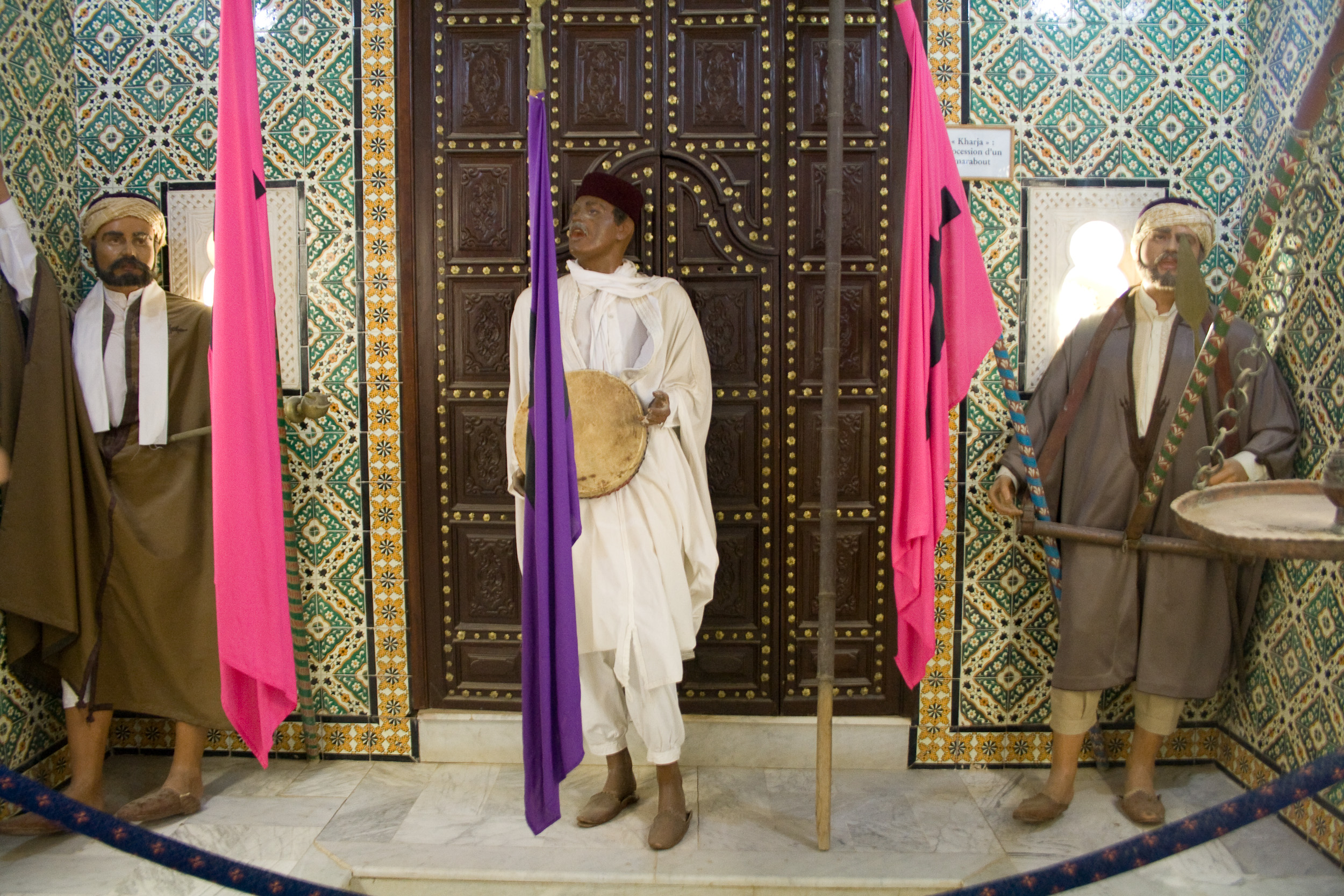 Sufis shown at the Dar Cherait Museum in Tozeur (Tunisia)